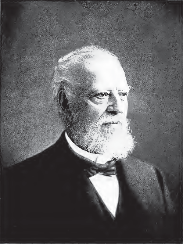 Germantown history, consisting of papers read before the Site and relic society of Germantown. [v. 1- ] (1915), B&W PDF Page Image 385